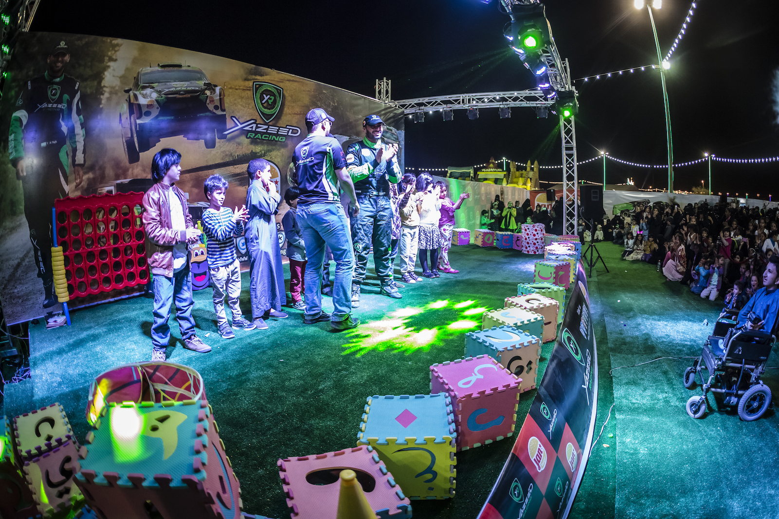 فعاليات فريق يزيد للسباقات - رالي حائل 2015